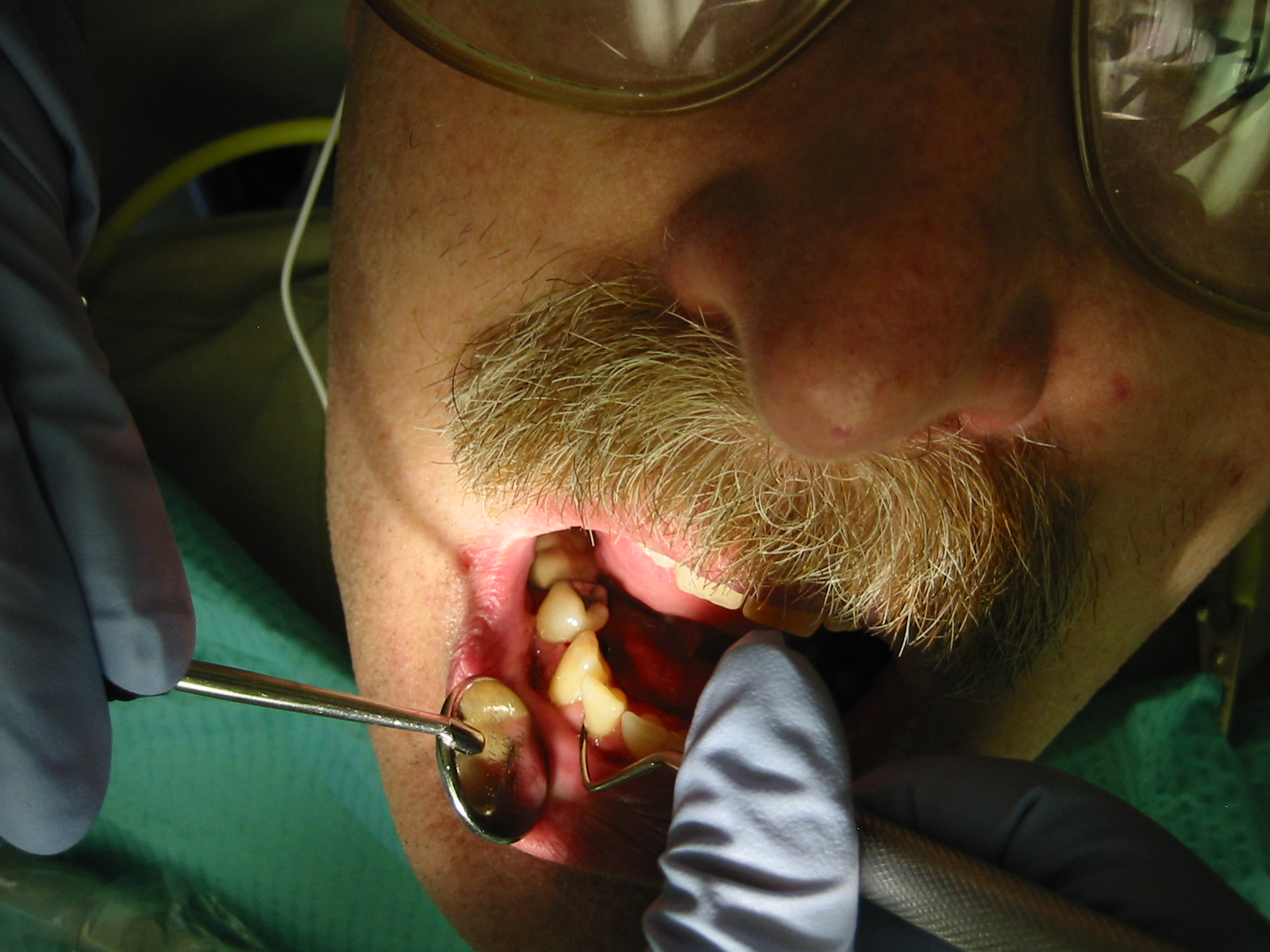 Tooth scaling Description: Dental hygienist scaling a patient's teeth during a periodic tooth cleaning. Viewpoint location: Seattle, Washington Date and time: 2006.01.18 10:44:27 PST Camera: Canon PowerShot S110 Photographer: Walter Siegmund ©2006 Walter Siegmund